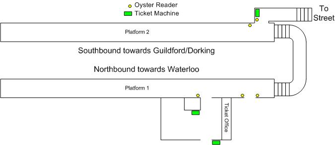 Outline layout of Worcester Park railway station highlighting ticket machine and Oyster reader locations